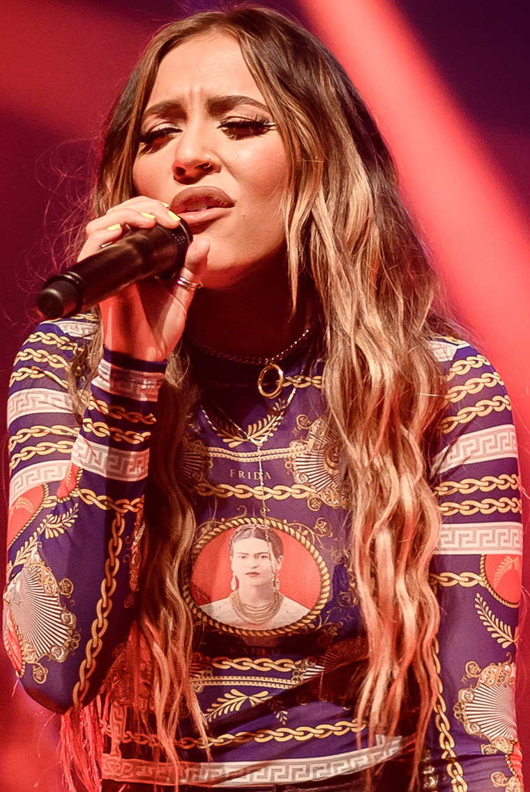 Lennon Stella performing live at The Fonda theatre in Los Angeles, California, on Wednesday, April 3, 2019. Shot for Pass The Aux.